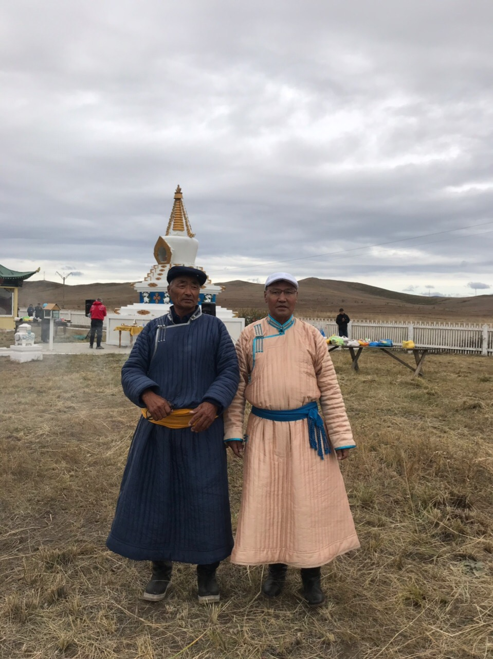 Barga Mongols in Buryatia